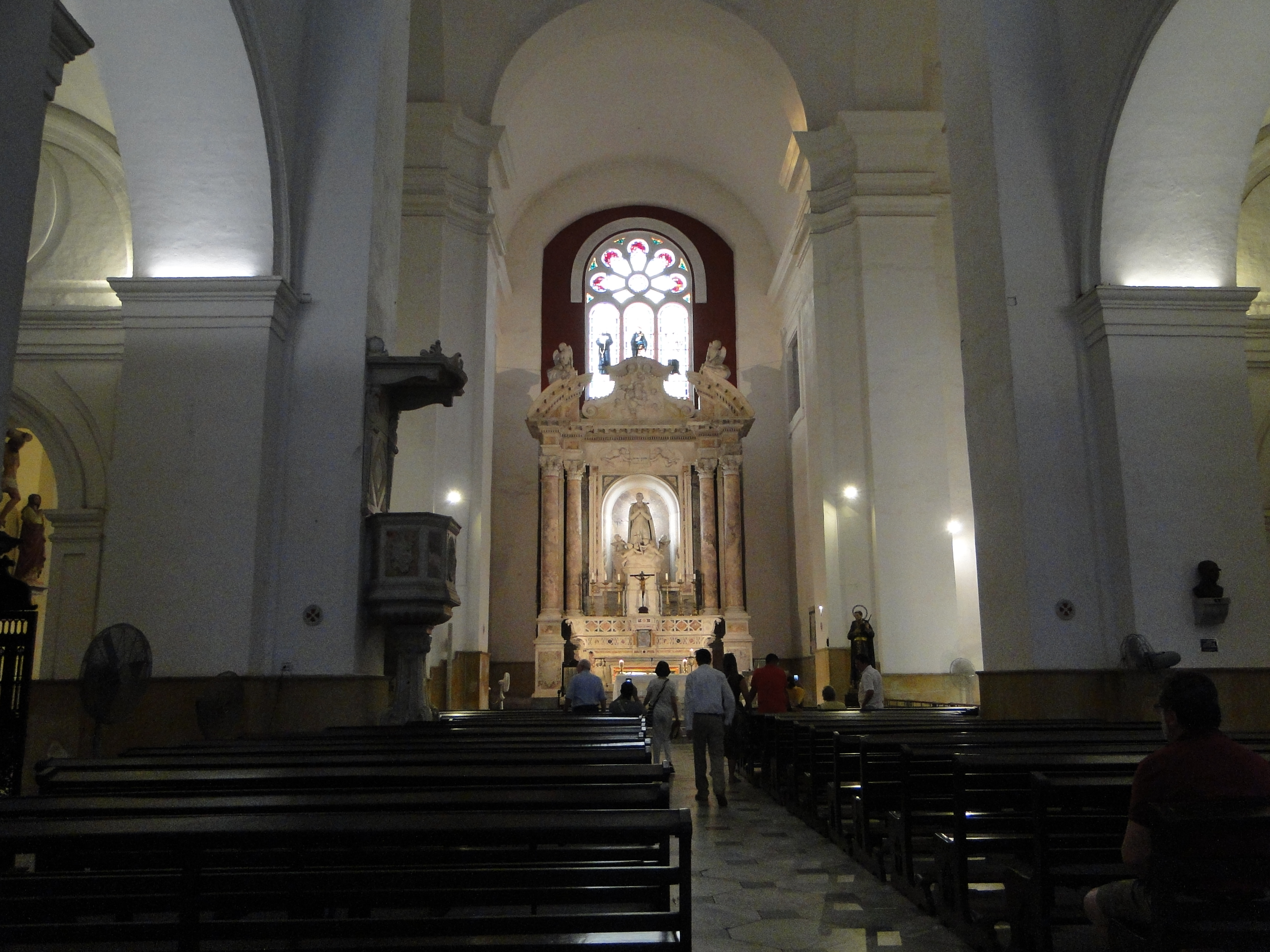 In the church San Pedro Claver (Cartagena), Columbia